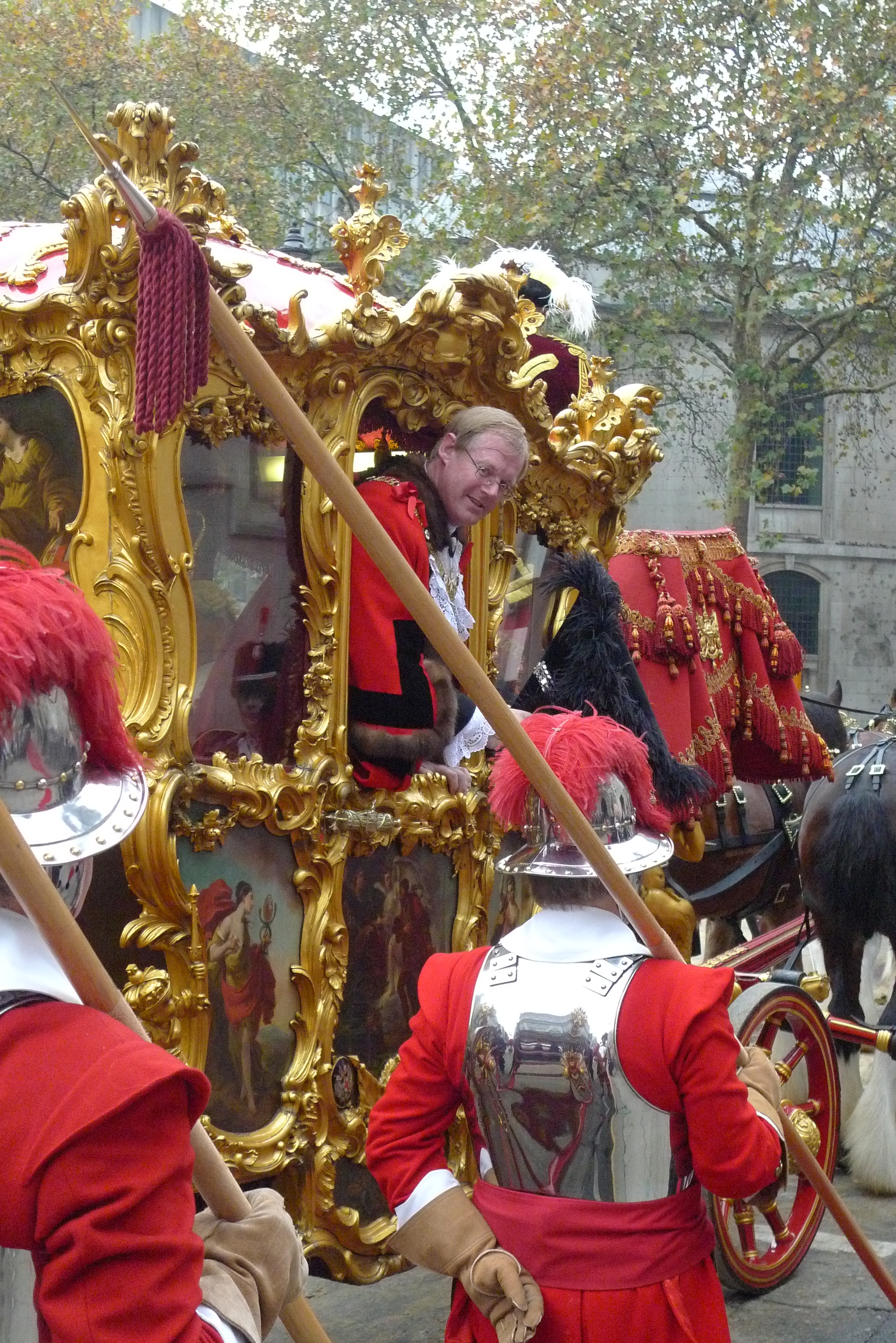 photo of the new Lord Mayor David Wootton, by Rodolph De Salis (me) taken as he left the Royal Courts of Justice in his State-Coach, November 2011.Rodolph (talk) 20:34, 21 November 2011 (UTC)